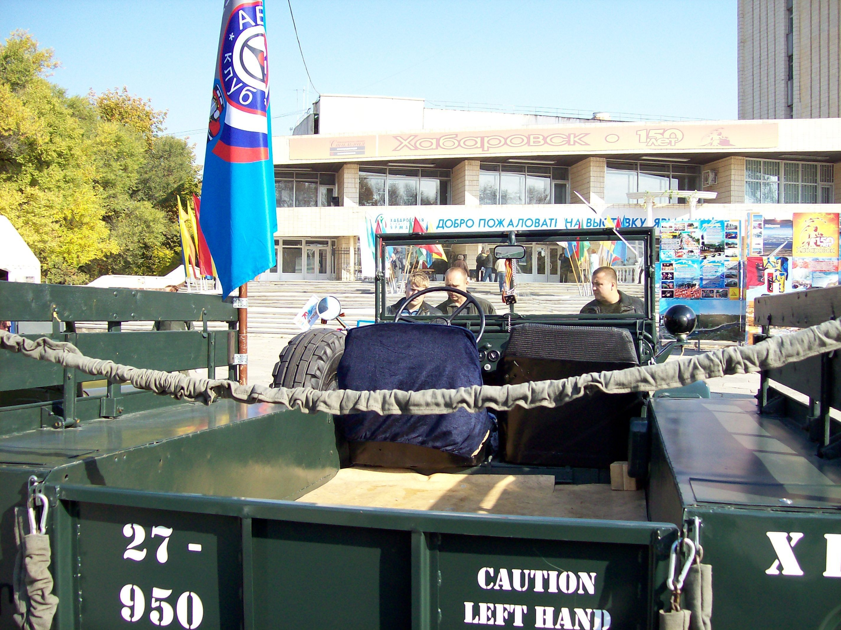 Dodge WC-51